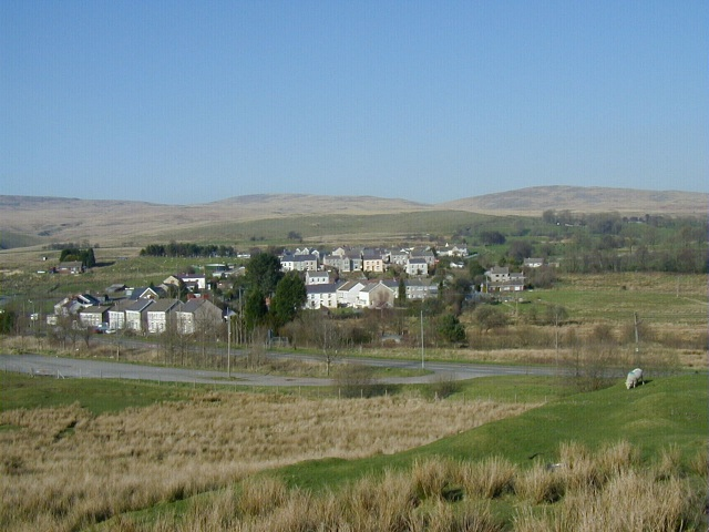 Cefn Bryn Brain. A view of Cefn Bryn Brain village (also within the grid square from where the picture was taken).